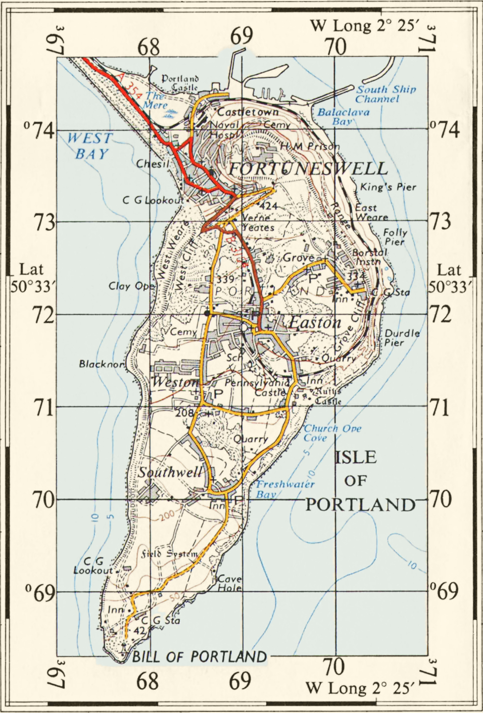 Ordnance Survey map of the Isle of Portland, at a scale of 1:63,360 or one inch to one statute mile.